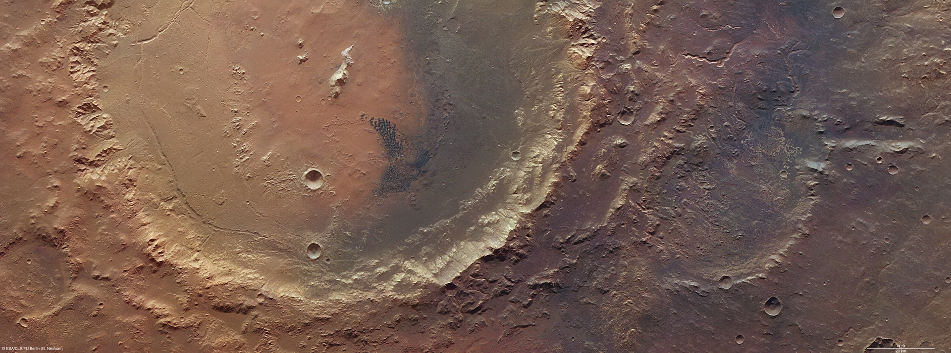 Holden crater is 140 km across, filling the left side of the image, while to the right is the remaining part of Eberswalde crater, with a diameter of about 65 km. They are located in the southern highlands of Mars. North is to the right of the image. The image was acquired by Mars Express at approximately 25°S / 326°E during orbit 7208 on 15 August 2009. The images have a ground resolution of about 22 m per pixel. Credit: ESA/DLR/FU Berlin (G. Neukum), CC BY-SA 3.0 IGO Copyright Notice: TThis work is licenced under the Creative Commons Attribution-ShareAlike 3.0 IGO (CC BY-SA 3.0 IGO) licence. The user is allowed to reproduce, distribute, adapt, translate and publicly perform this publication, without explicit permission, provided that the content is accompanied by an acknowledgement that the source is credited as 'ESA/DLR/FU Berlin’, a direct link to the licence text is provided and that it is clearly indicated if changes were made to the original content. Adaptation/translation/derivatives must be distributed under the same licence terms as this publication. To view a copy of this license, please visit